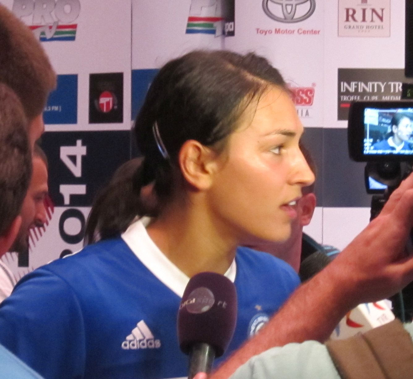 Cristina Neagu during an interview at Bucharest Trophy 2014.